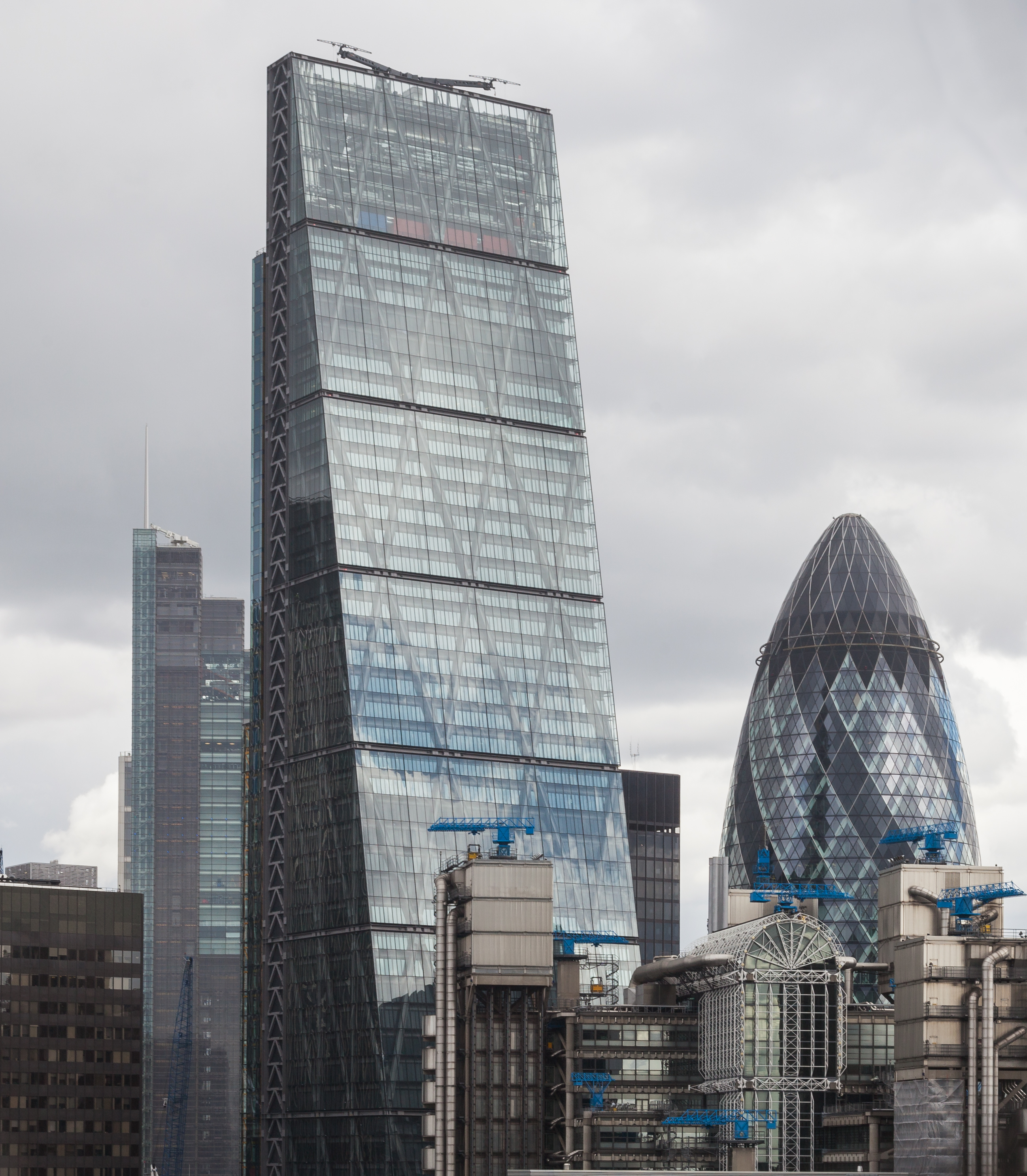 Leadenhall building and Gherkin, London, England